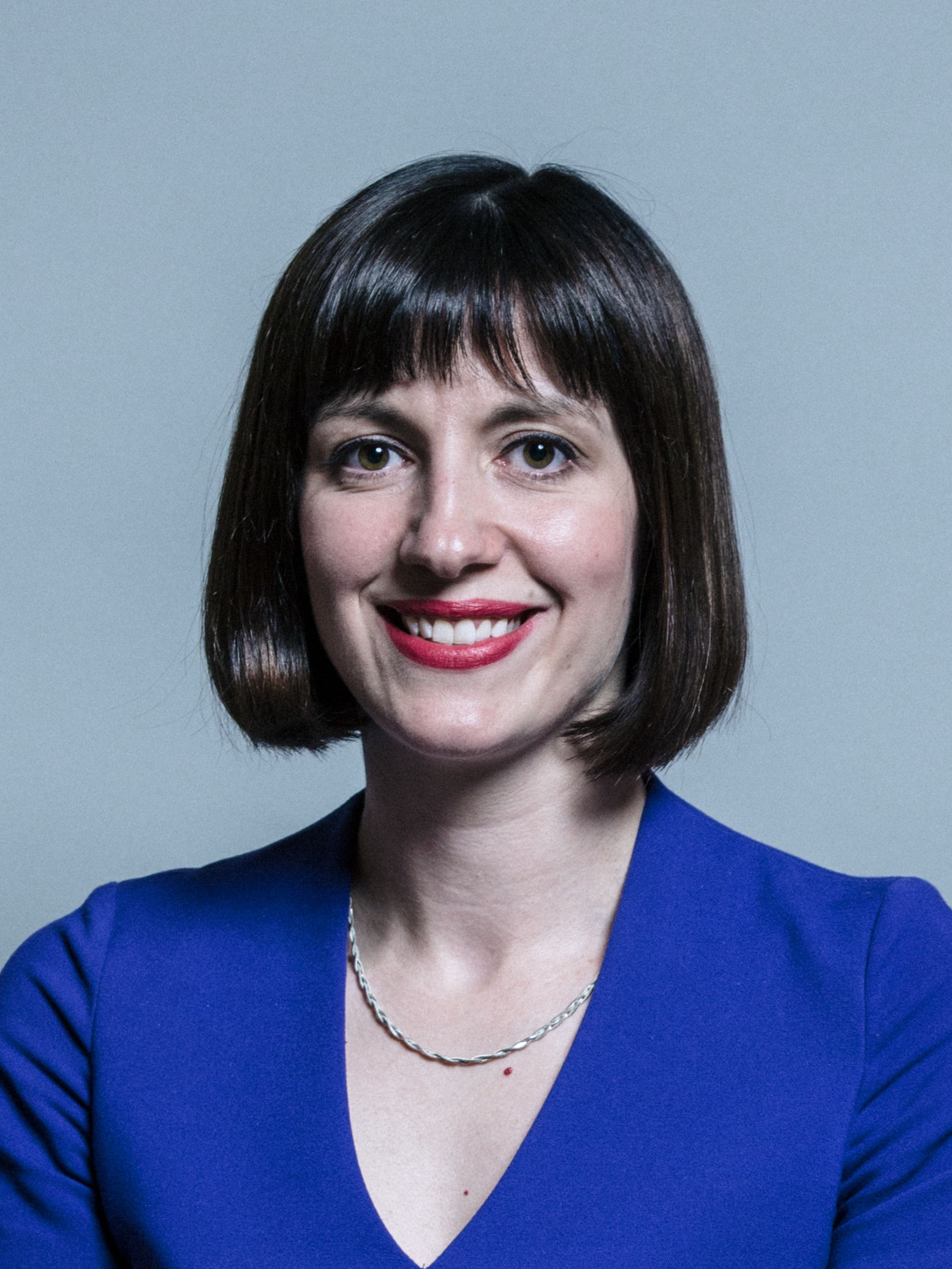 Official portrait of Bridget Phillipson